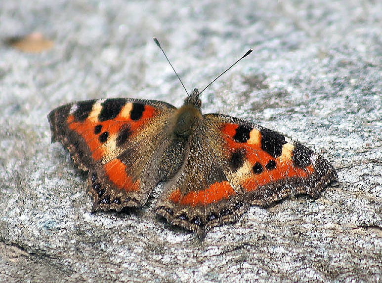 Indian Tortoiseshell Nymphalis kaschmirensis shot taken in Kullu distt. of Himachal Pradesh, India during Saurkundi Pass Trek.